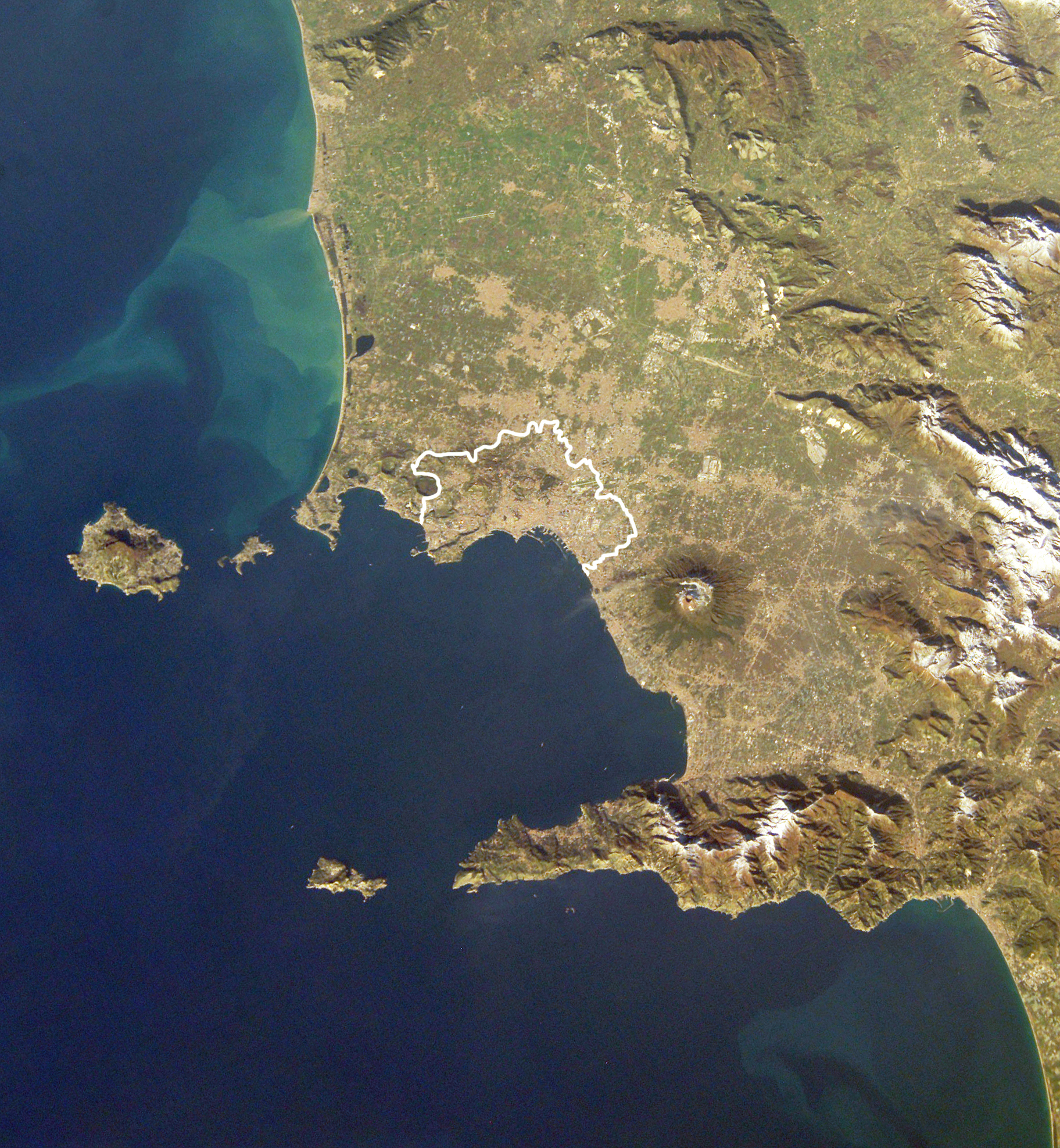 Gulf of Naples with the city limits of Naples in white